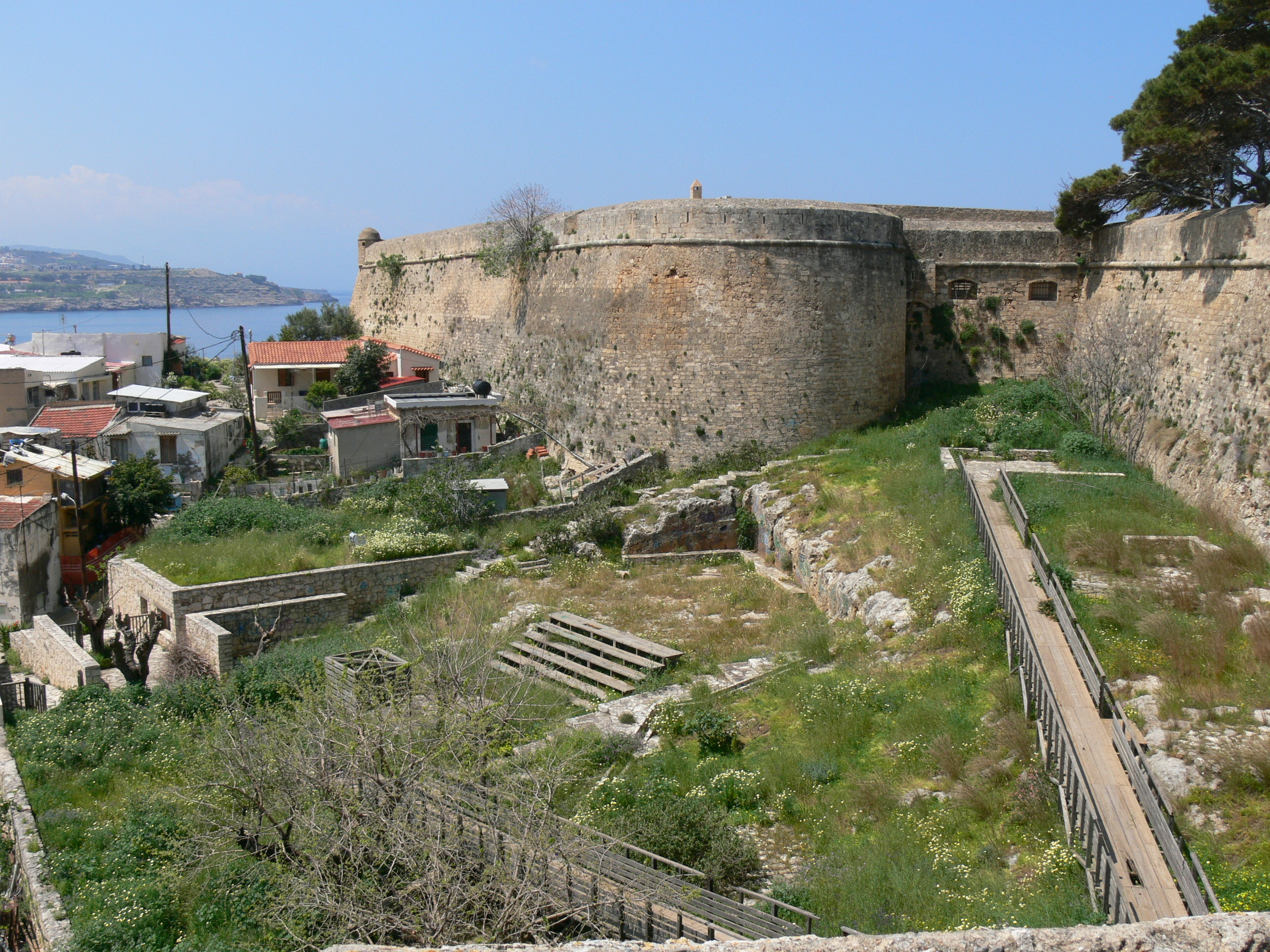 Rethymno fortress ( Crete ). Bastion from the outside.